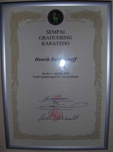 Senpai graduation diploma (Japanese martial arts)